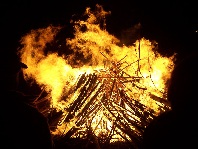 Large bonfire with partial silhouette-Silhouette of person on the left